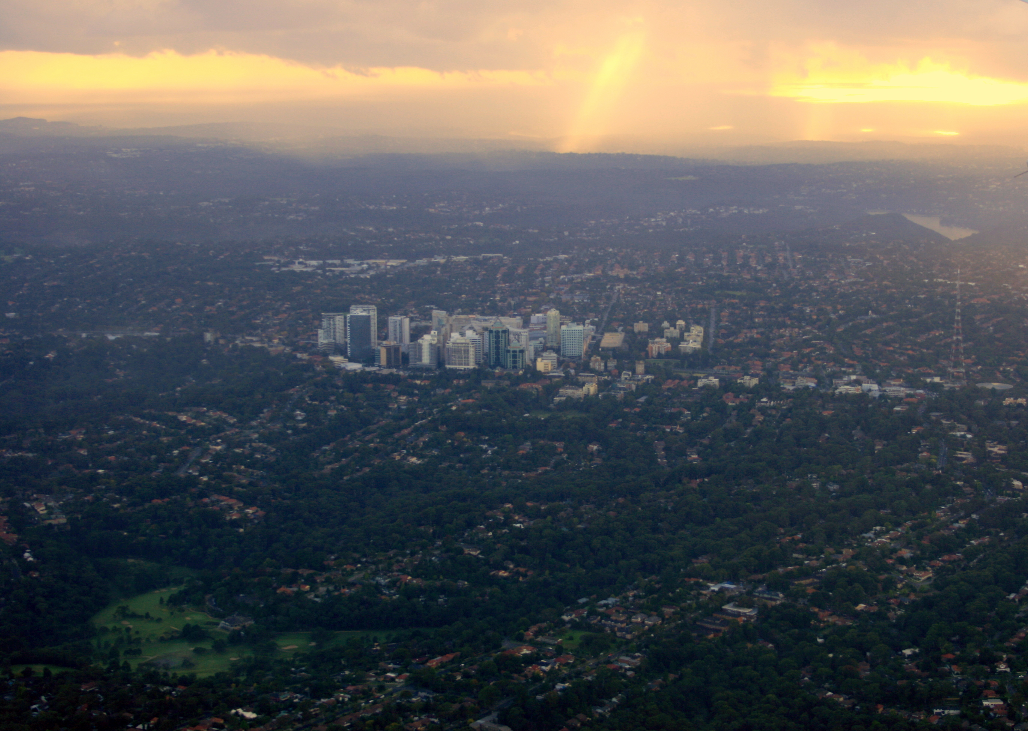 Aerial view of Sydney suburb of Chatswood - looking east just after sunrise